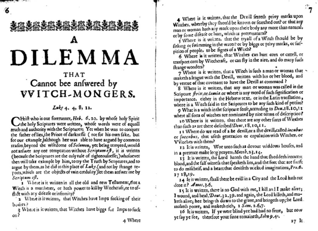 Thomas Ady here pivots between things that are not in the Bible that are alleged of witches, and admonitions to charitable behaviour that are in the bible.